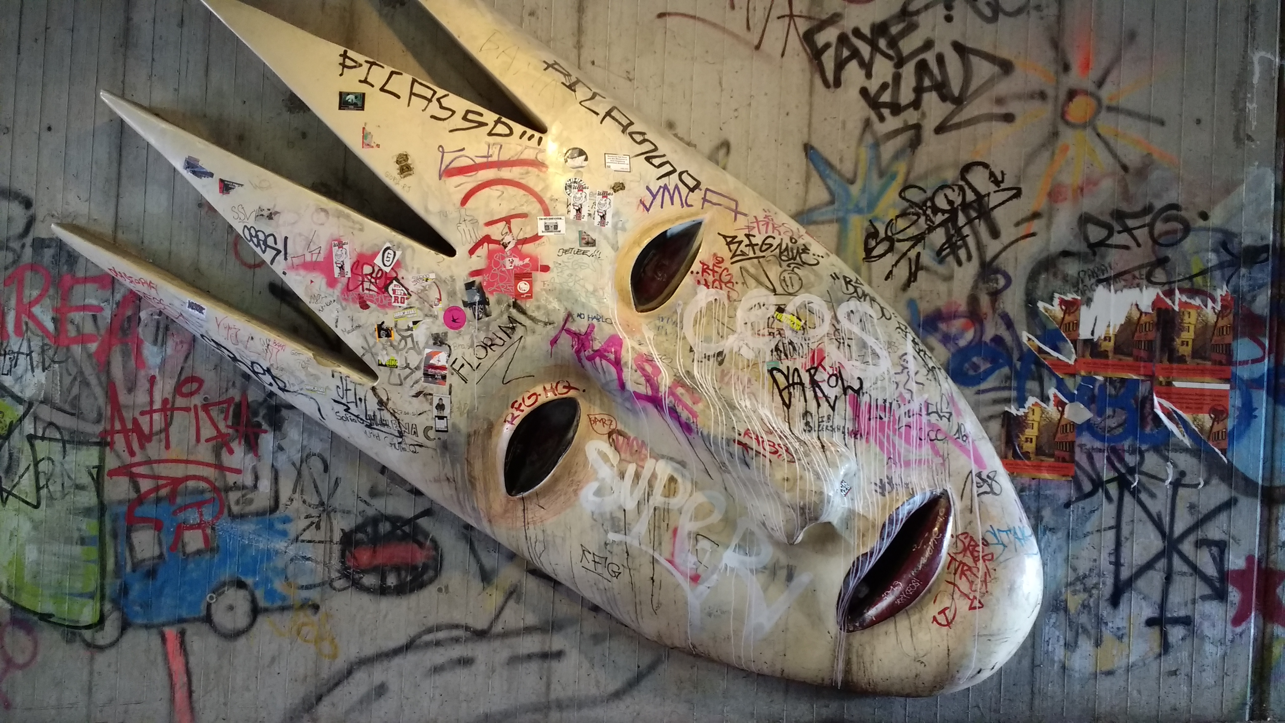 Tübingen street art near blau brücke